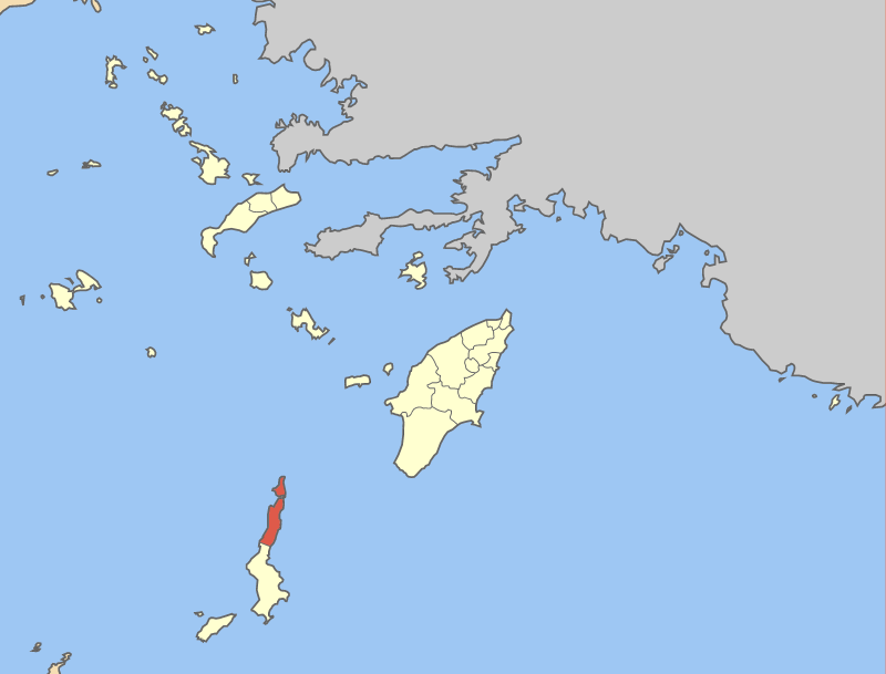 Locator map of Olymbos community (Κοινότητα Ολύμπου) in Dodecanese prefecture (Νομός Δωδεκανήσου) in Greece.